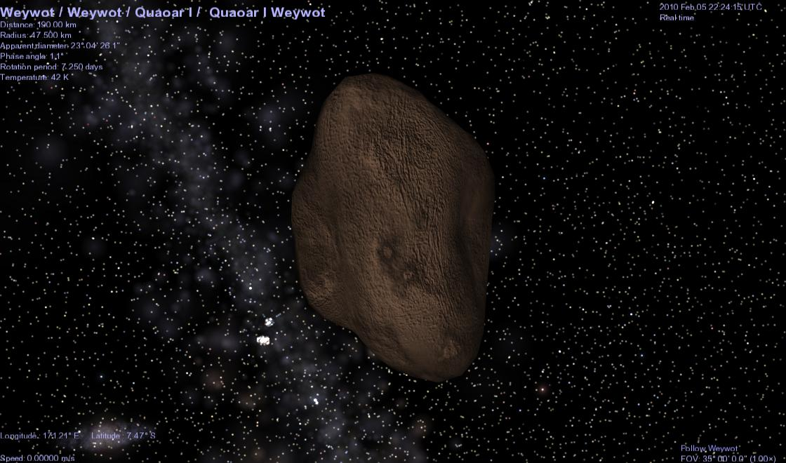 Quaoar's moon Weywot as simulated by Celestia. The shaping and surface details are fictional.